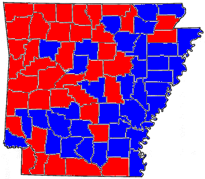 County results of the 2010 Arkansas Secretary of State election. Mark Martin (R) Pat O'Brien (D)